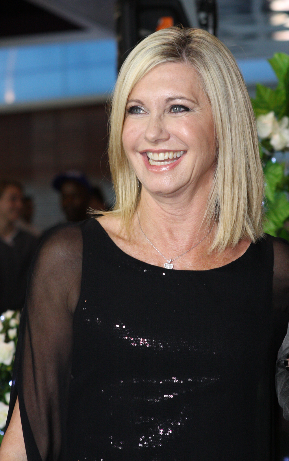 A Few Best Men Red Carpet Movie Premiere In Sydney, Australia A Few Best Men enjoyed its Sydney red carpet premiere earlier this evening at Bondi Junction's Event Cinema. In essence, it's a a comedy about a groom and his three best men who travel to the Australian outback for a wedding. The flick has numerous Sydney based media men and women tipping that this may be just the start of a reinvigoration of Olivia Newton-John's acting career, but its really too early to know for sure. Maybe O-N-J and her agent know something we don't. Twilight Eclipse hunk Xavier Samuel stars as the film's hapless bridegroom. British thespians Kris Marshall (Death At A Funeral) Kevin Bishop (Spanish Apartment), and Australian comedy star Rebel Wilson was there, as was Laura Brent (Chronicles of Narnia), Steve Le Marquand (Beneath Hill 60) and Tangle actor Tim Draxl. Even local MP Malcolm Turnbull and wife Lucy showed up in support. The flick, which was filmed in Sydney and the Blue Mountains, is hoped to be a return to form for Elliott, who has had mixed success since his 1994 smash hit The Adventures of Priscilla: Queen of the Desert. It's quite an unlikely acting platform for Newton-John, who many film industry commentators say her last decent film role was alongside John Travolta in Two of a Kind back in 1983. Elliott told the media that the Aussie singer/actress has fitted in well with the rest of the cast. "She's great. Everyone's coming together really well and she's really getting into it," he said. A Few Best Men opens in cinemas nationally on January 26, 2012. Director: Stephan Elliott Writers: Dean Craig Stars: Rebel Wilson, Olivia Newton-John and Xavier Samuel Websites A Few Best Men official website Icon Film Distribution Event Cinemas Nix Co Eva Rinaldi Photography Flickr Eva Rinaldi Photography Splash News Music News Australia